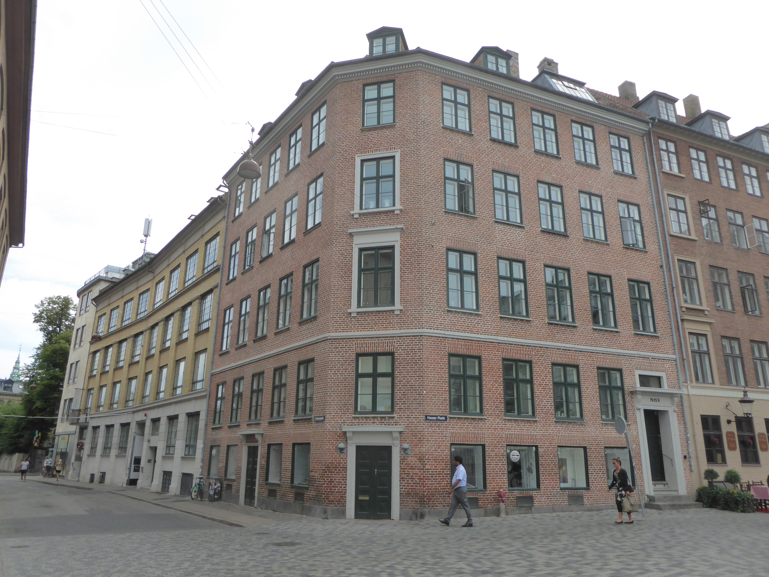 Building at the corner of Suhmsgade and Hauser Plads in Indre By in Copenhagen.